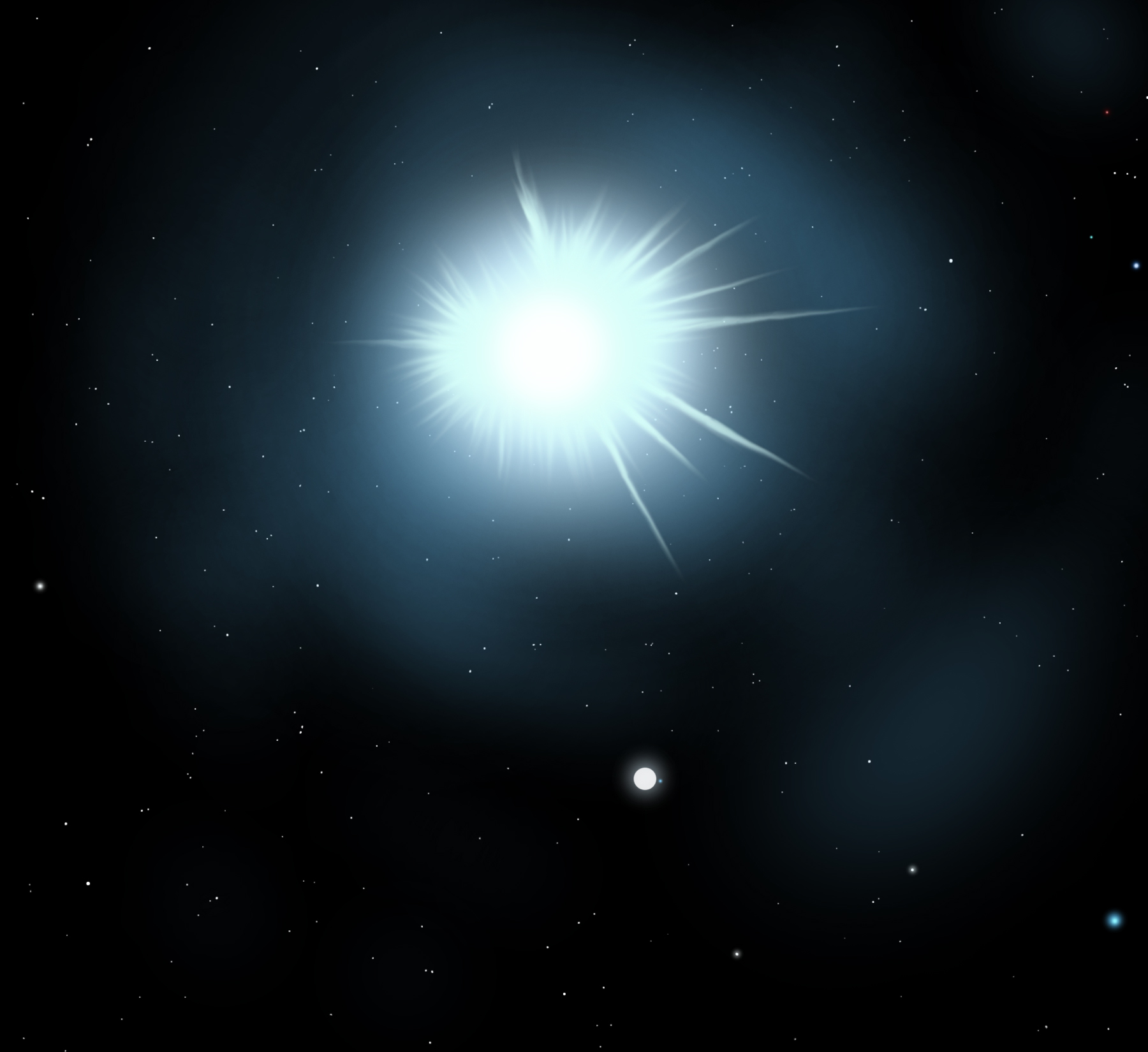 Eta Canis Majoris, a Blue Class B5 supergiant in the Canis Major constellation. It is a fairly young star, but because of its fast Main Sequence burn, it is already nearing the end of its life.